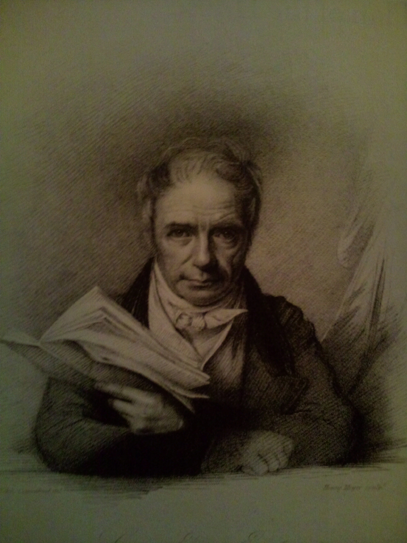 Drawing of George Ensor